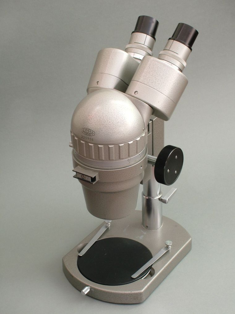 Olympus SZIII stereo microscope